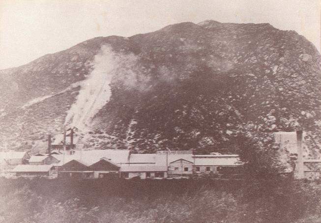 Mount Slover cement plant in 1891